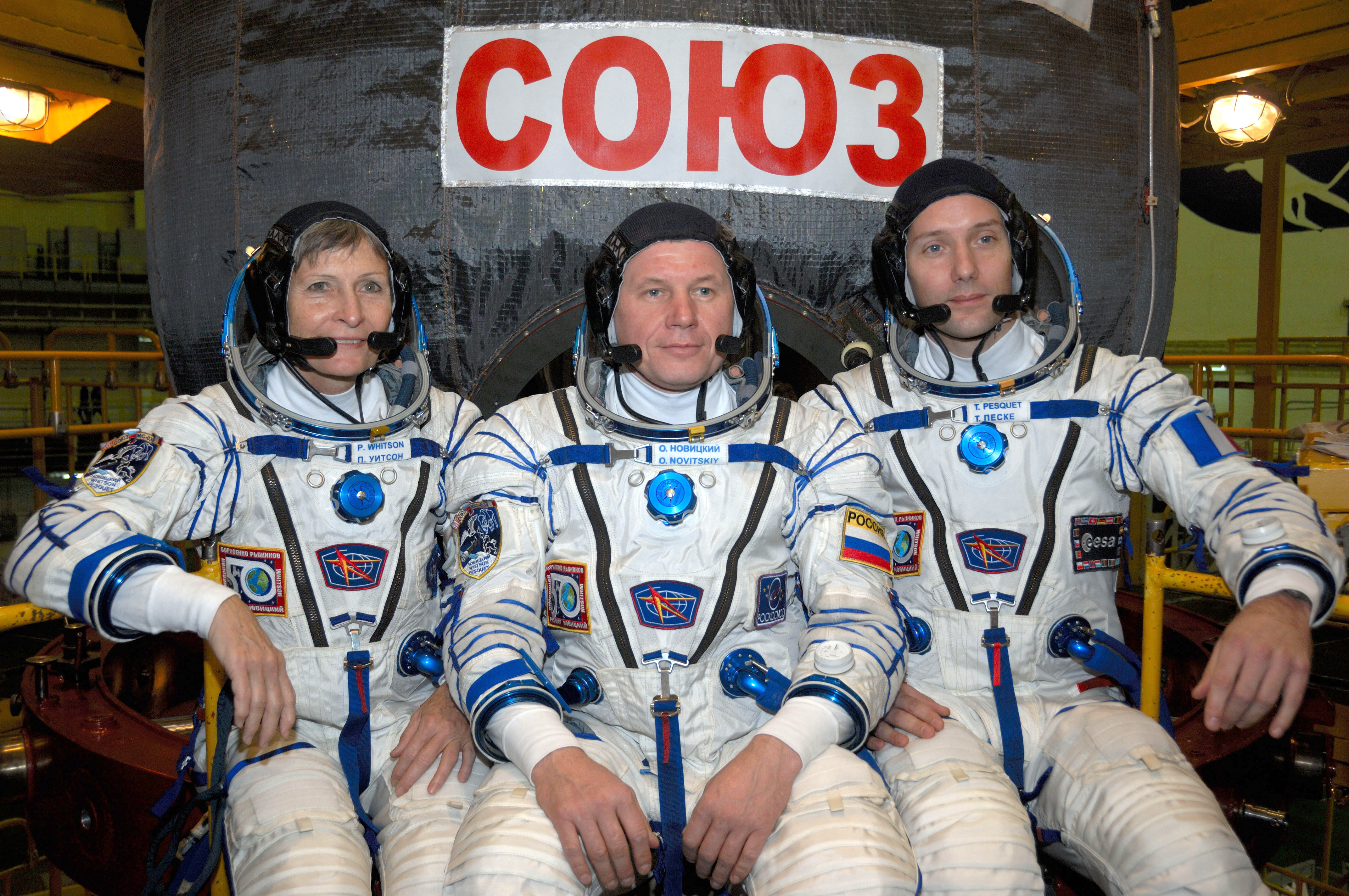 In the Integration Facility at the Baikonur Cosmodrome in Kazakhstan, Expedition 50-51 crewmembers Peggy Whitson of NASA (left), Oleg Novitskiy of the Russian Federal Space Agency (Roscosmos, center) and Thomas Pesquet of the European Space Agency (right) pose for pictures Nov. 2 in front of their Soyuz MS-03 spacecraft during a fit check dress rehearsal. They will launch Nov. 18, Baikonur time, for a six-month mission on the International Space Station. NASA/Alexander Vysotsky